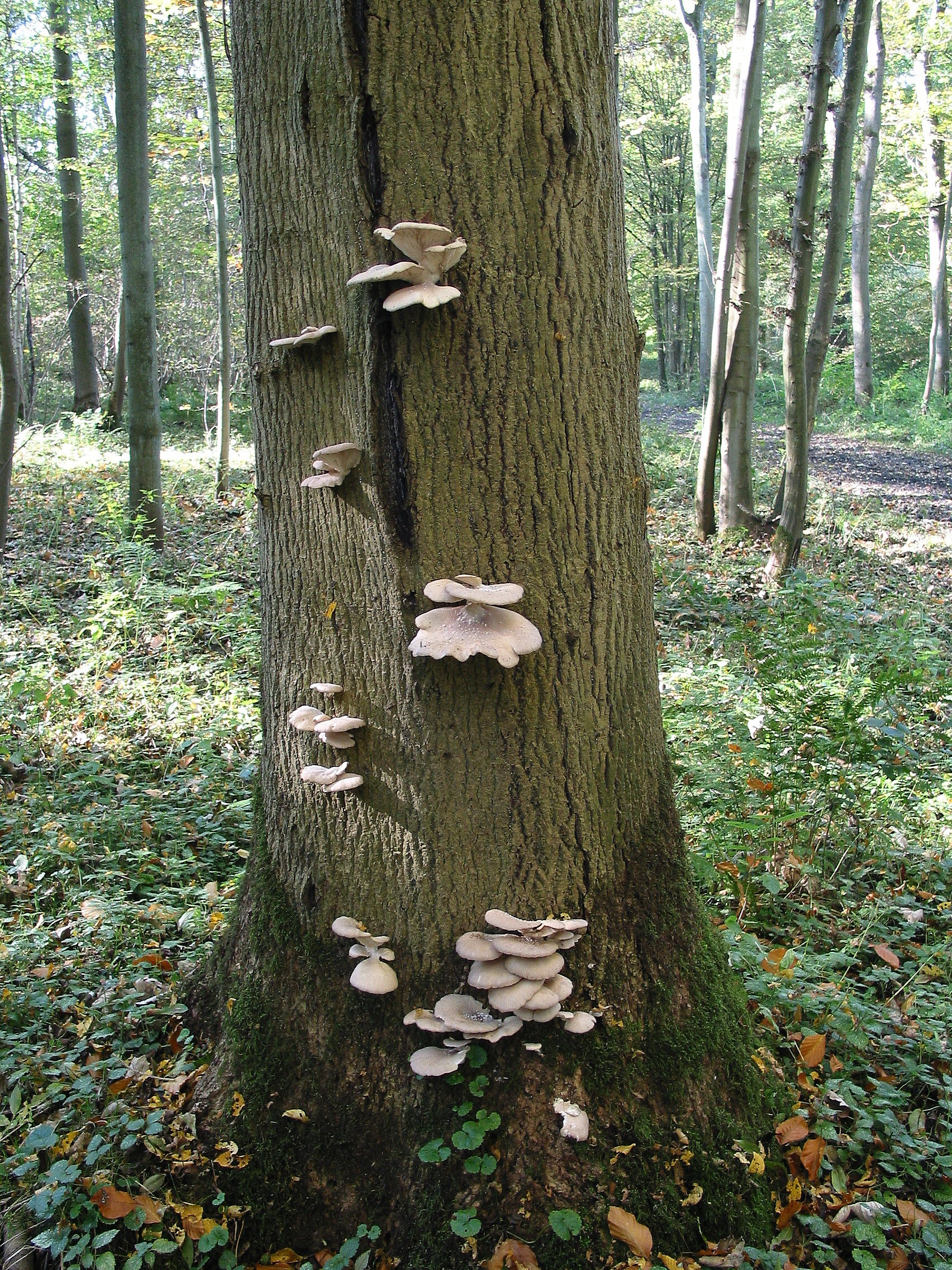 Oyster mushrooms, Havré, Belgium